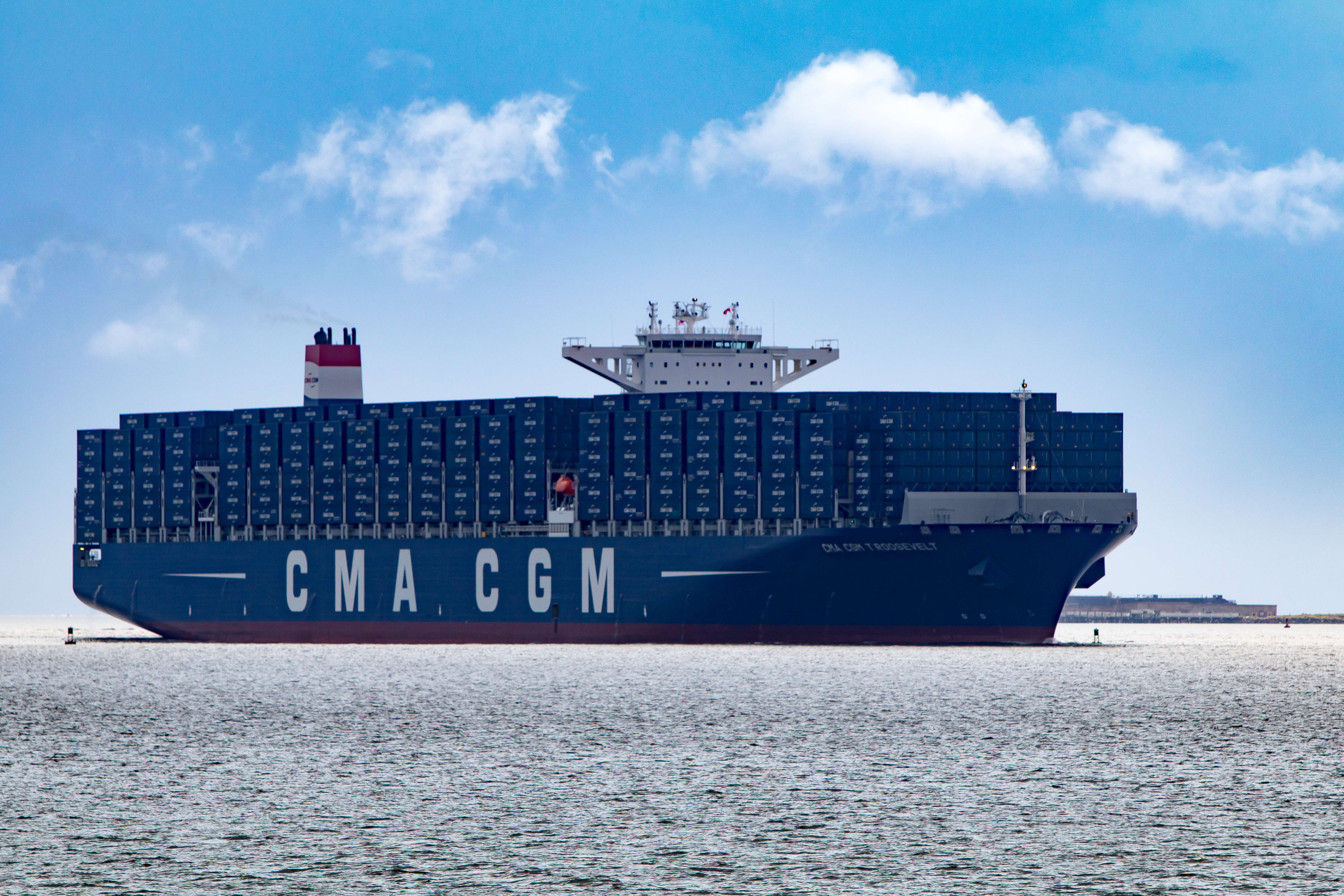 14,414 TEU CMA CGM Theodore Roosevelt entering Charleston Harbor.